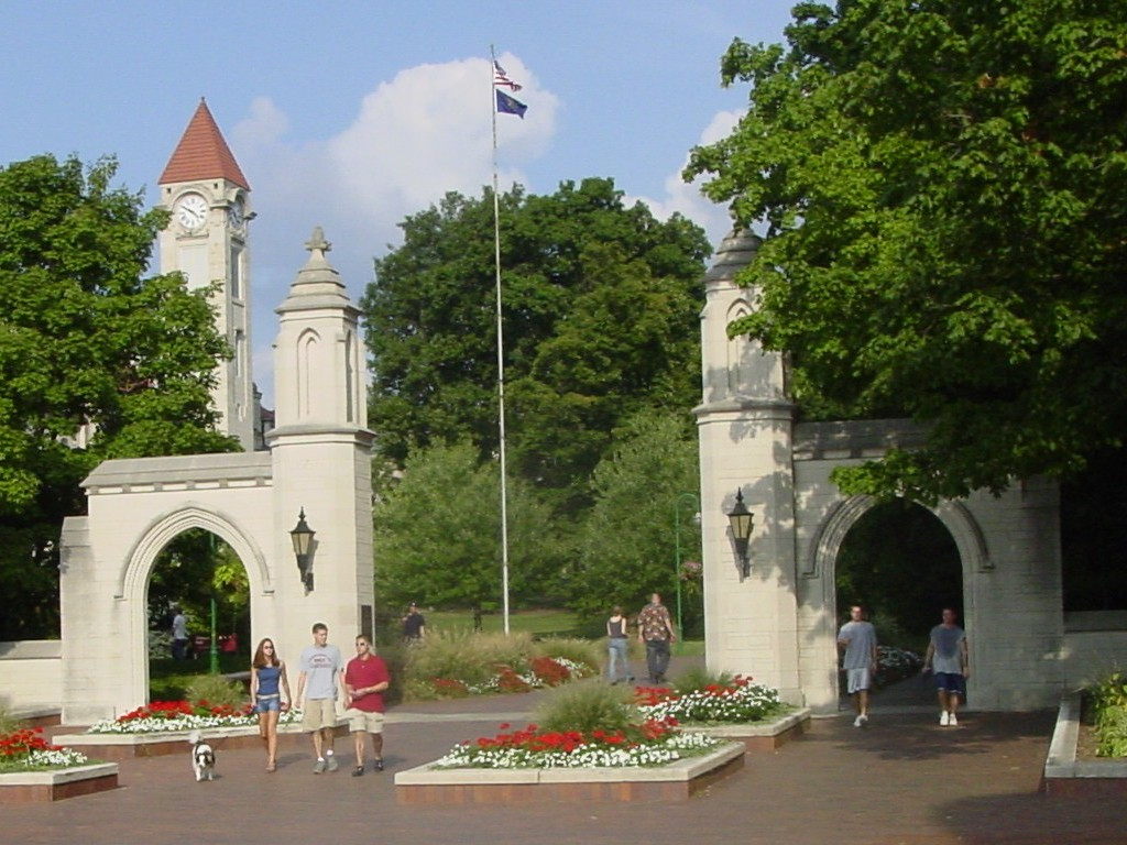 Sample Gates, Indiana University Bloomington, USA